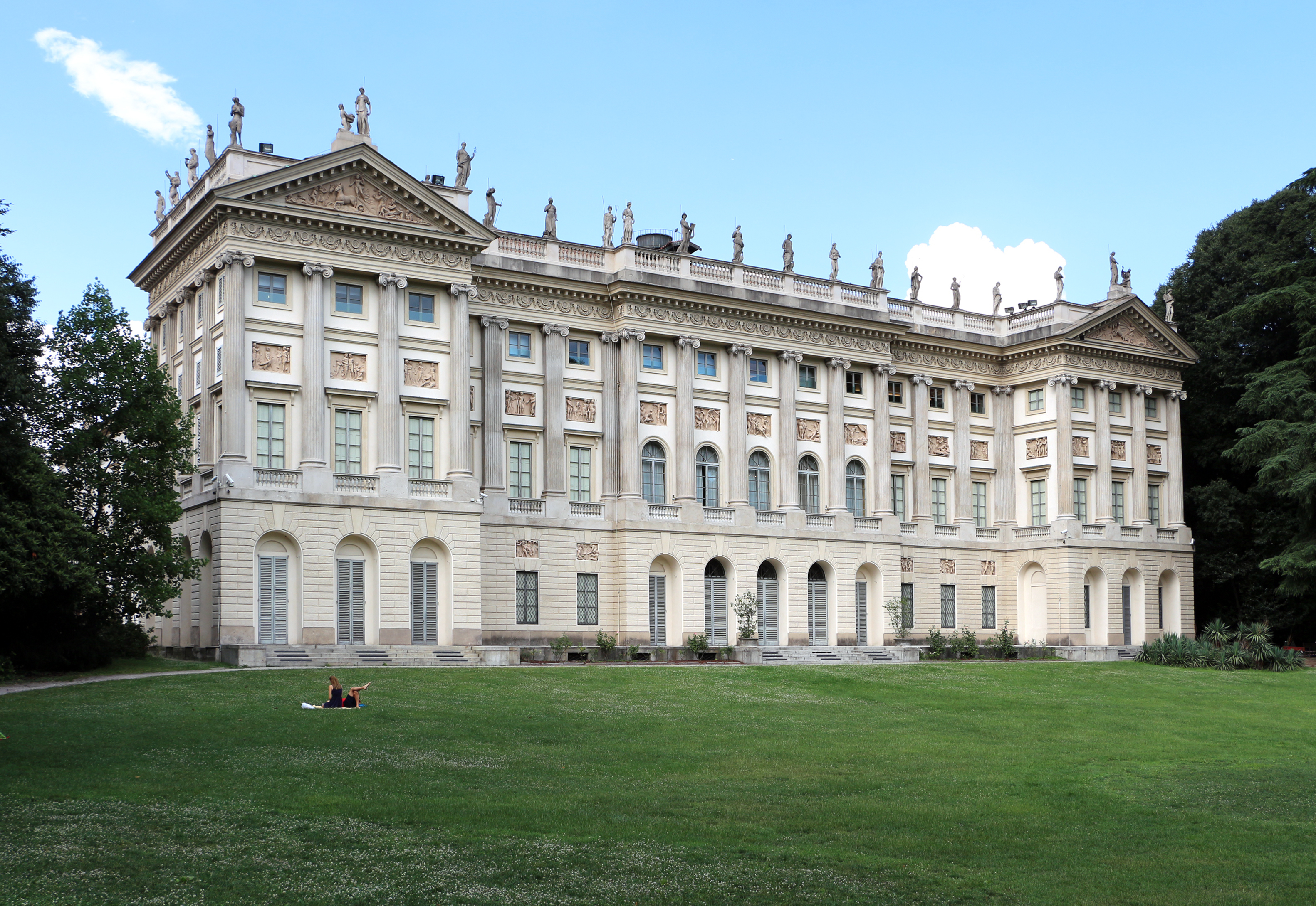 Villa Reale (Milan)